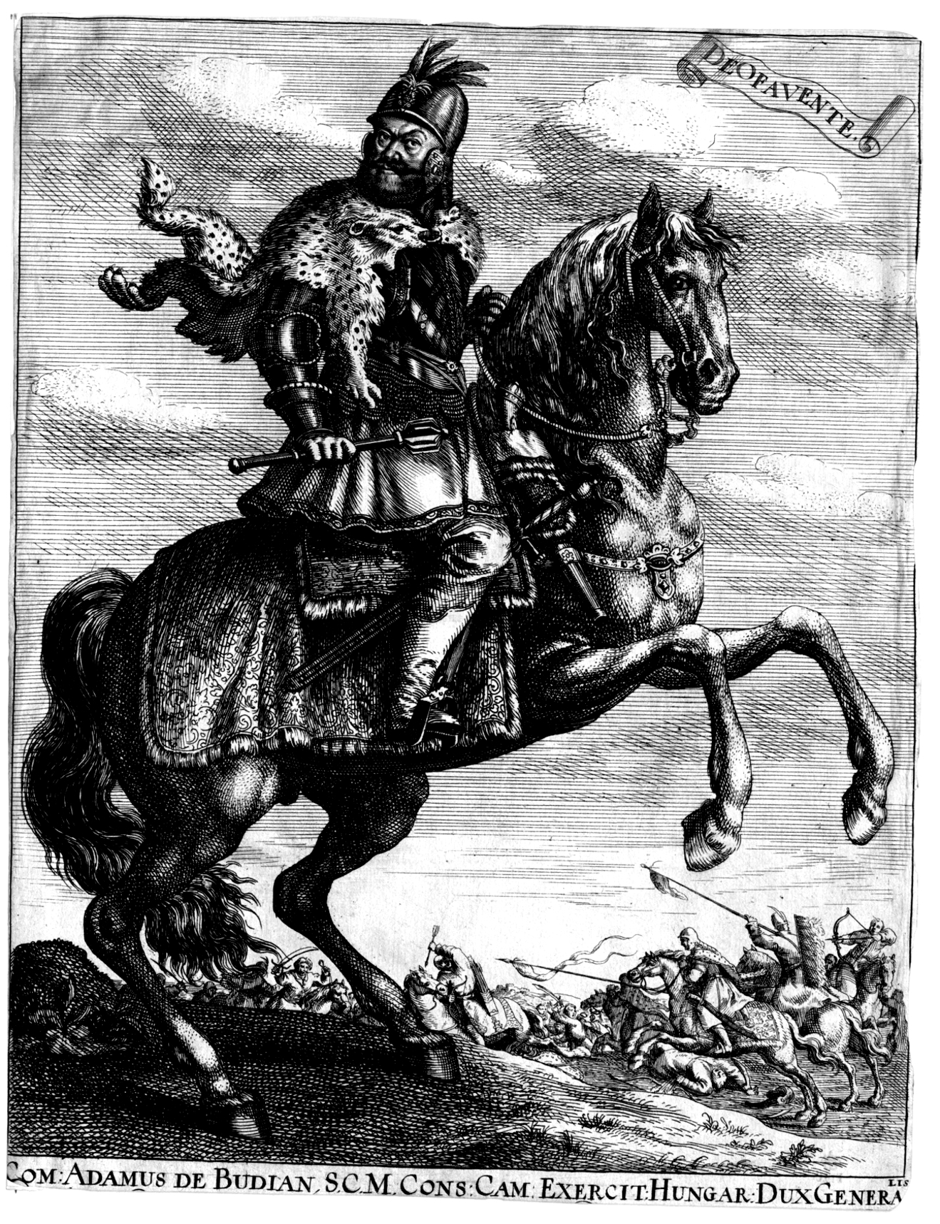 Adam I. Batthyány